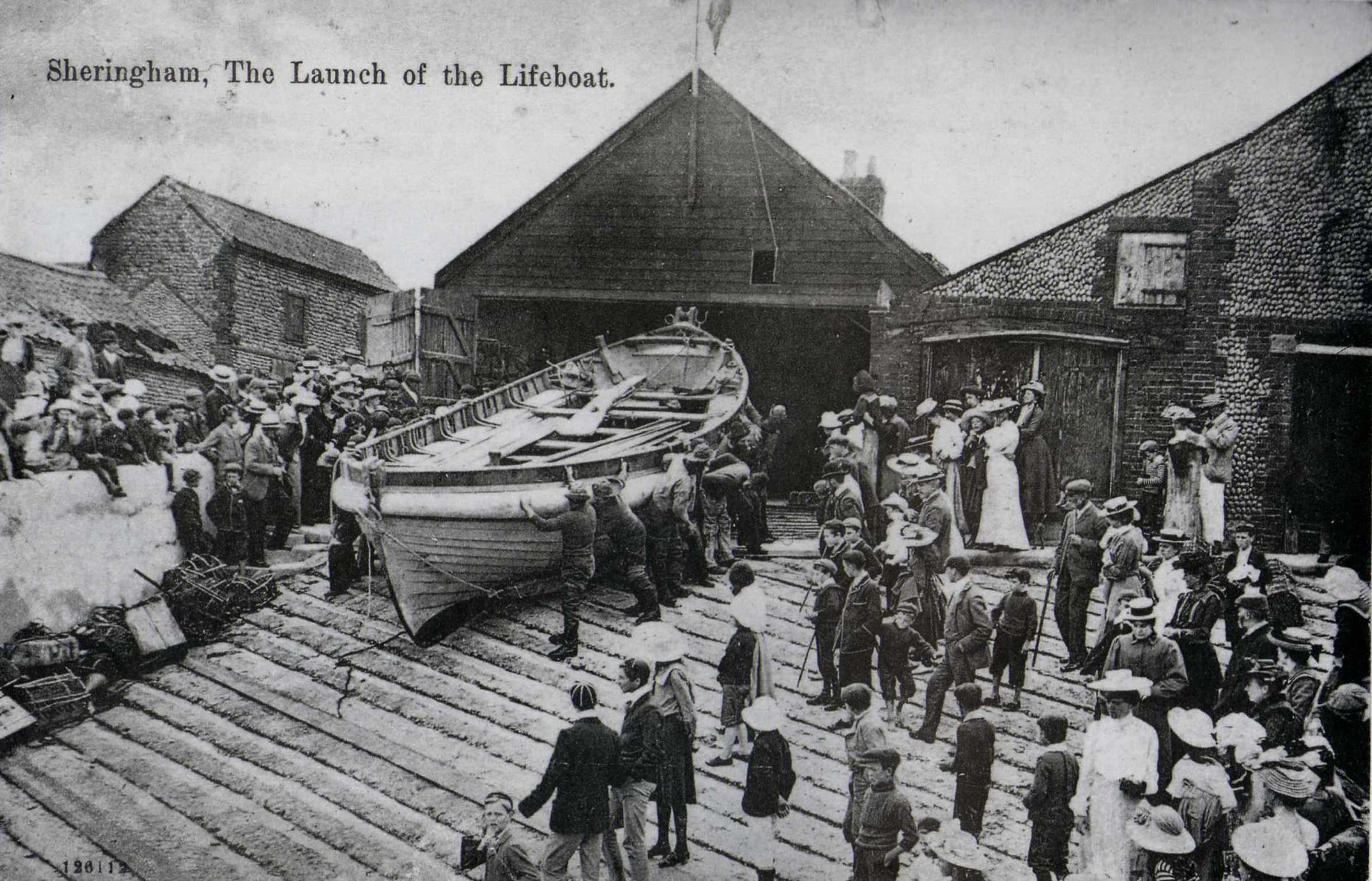 Post card image dated cica 1904 of the Sheringham lifeboat Henry Ramey Upcher outside her boathouse